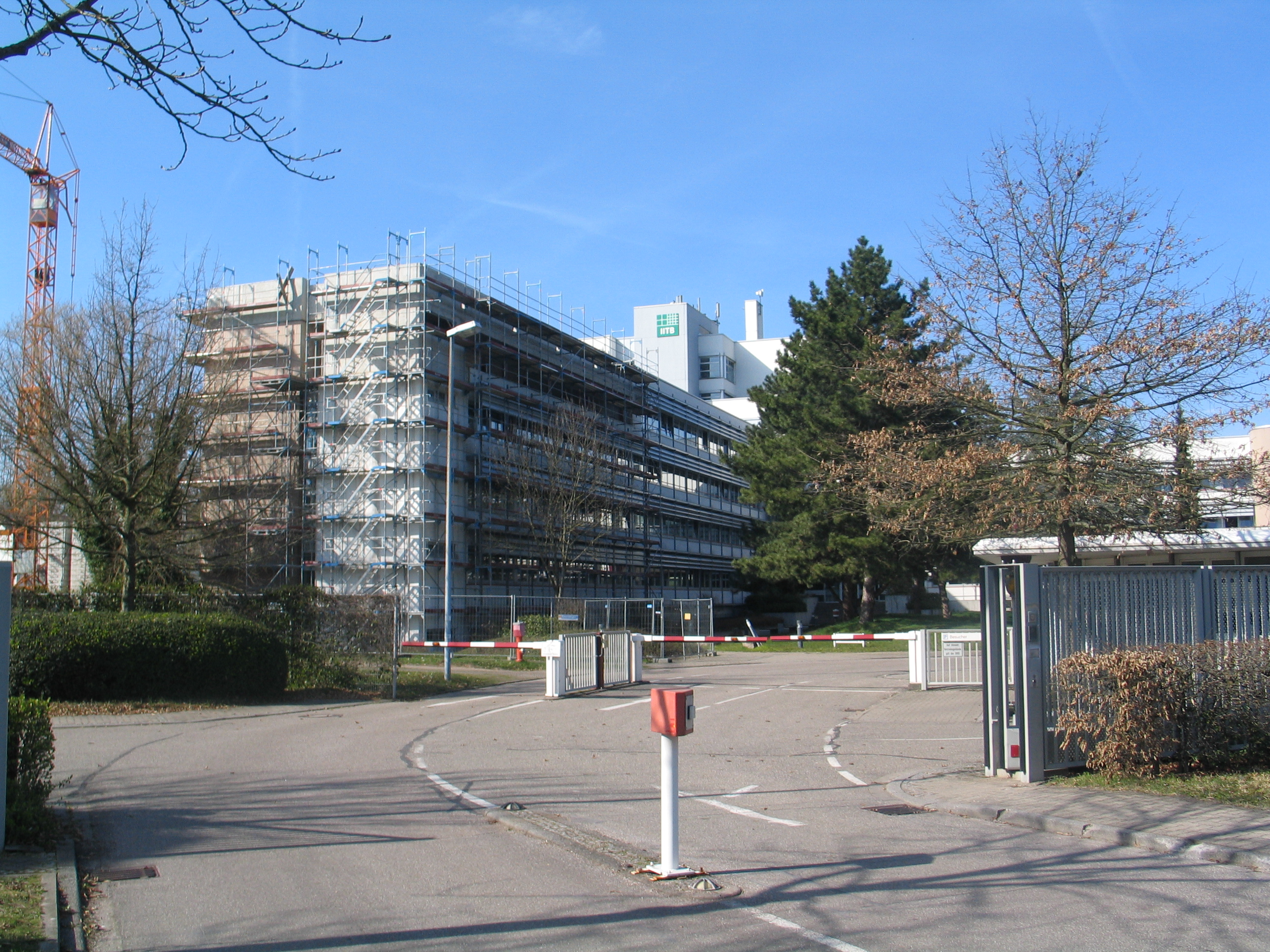 Fraunhofer Institute of Optronics, System Technologies and Image Exploitation